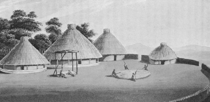 Pre-colonial South African rondavel.Homestead in the ancient City of Kaditshwene circa early 1400s - abandoned in 1820s